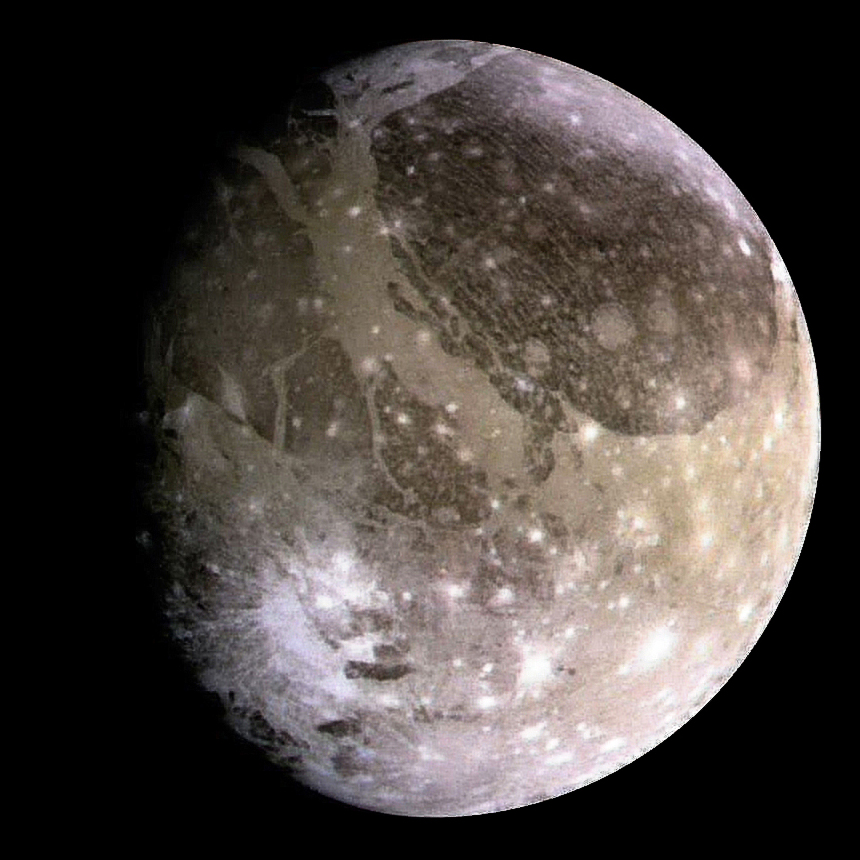 True color image of Ganymede, obtained by the Galileo spacecraft, with enhanced contrast. Here is the description from JPL's web entry for PIA00716: Natural color view of Ganymede from the Galileo spacecraft during its first encounter with the satellite. North is to the top of the picture and the sun illuminates the surface from the right. The dark areas are the older, more heavily cratered regions and the light areas are younger, tectonically deformed regions. The brownish-gray color is due to mixtures of rocky materials and ice. Bright spots are geologically recent impact craters and their ejecta. The finest details that can be discerned in this picture are about 13.4 kilometers across. The images which combine for this color image were taken beginning at Universal Time 8:46:04 UT on June 26, 1996. The Jet Propulsion Laboratory, Pasadena, CA manages the mission for NASA's Office of Space Science, Washington, DC. This image and other images and data received from Galileo are posted on the World Wide Web, on the Galileo mission home page at URL Background information and educational context for the images can be found at